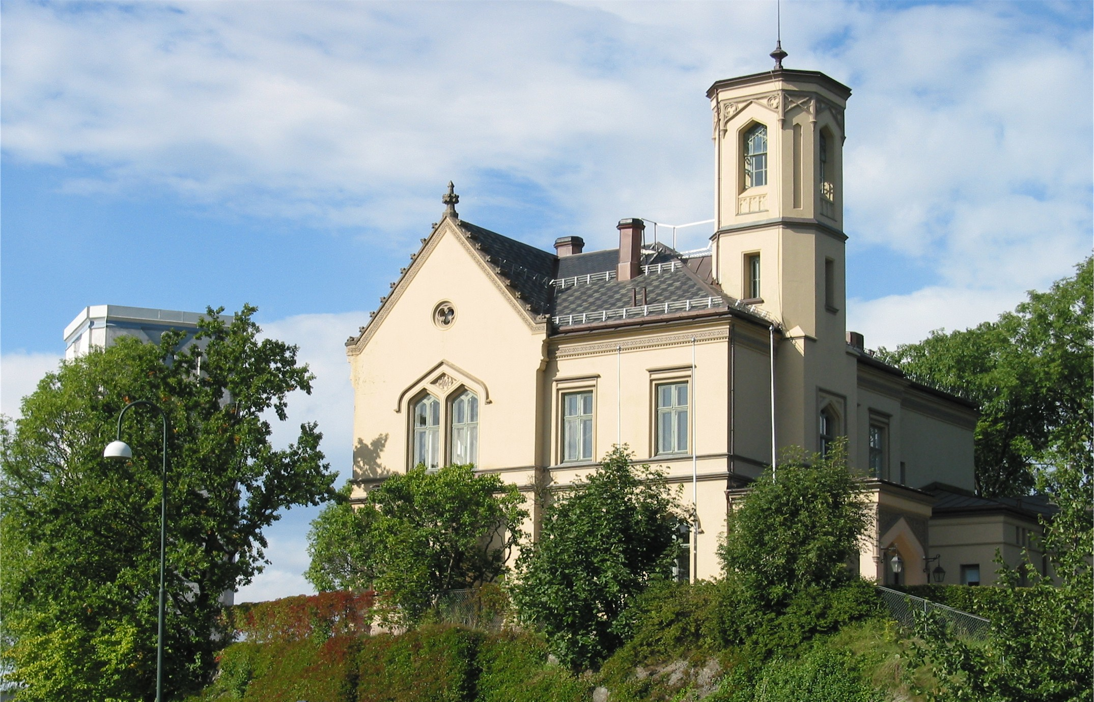 Villa Filipstad, Vika, Oslo, Norway